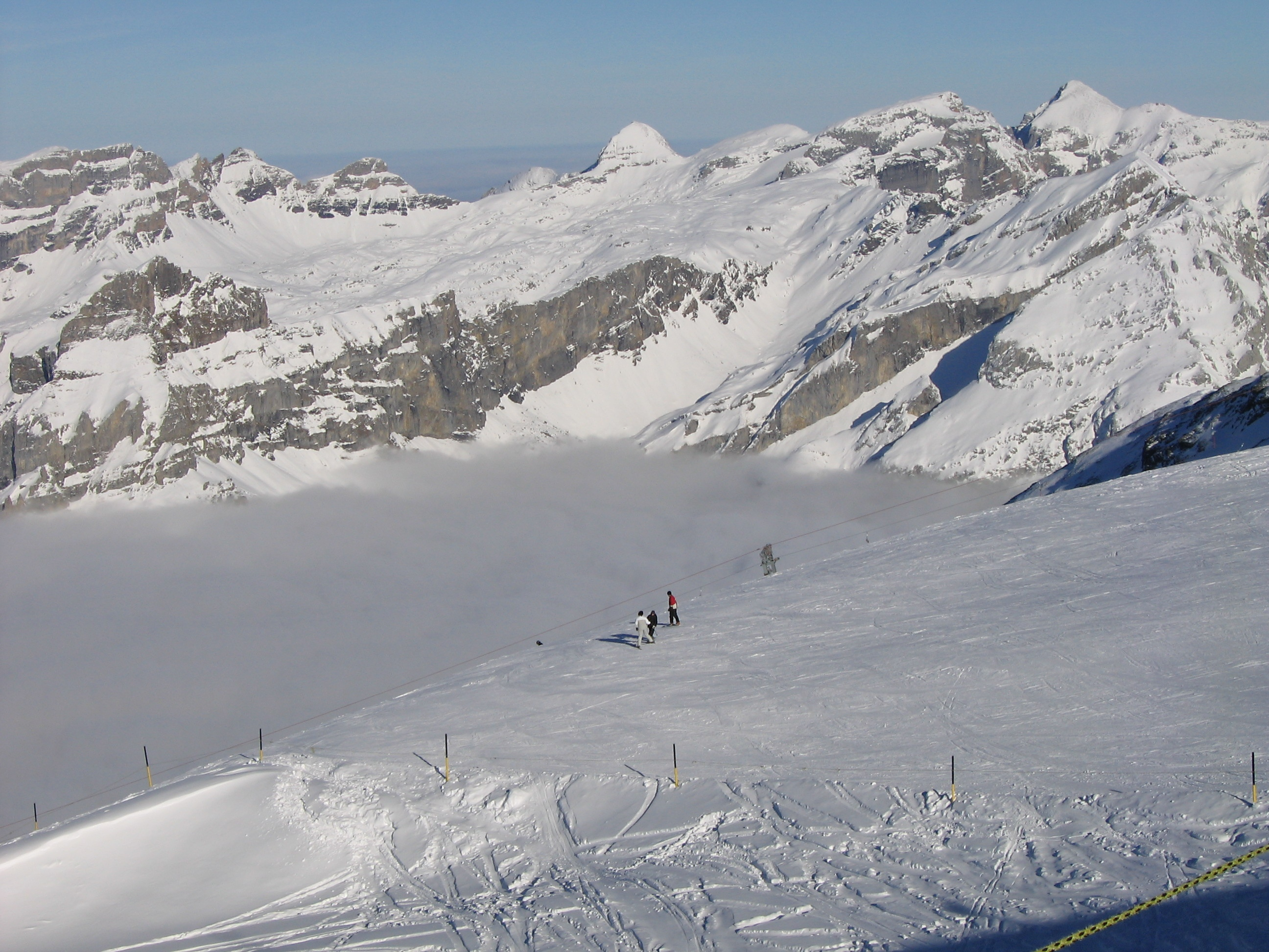 Titlis, ski slope on the glacier